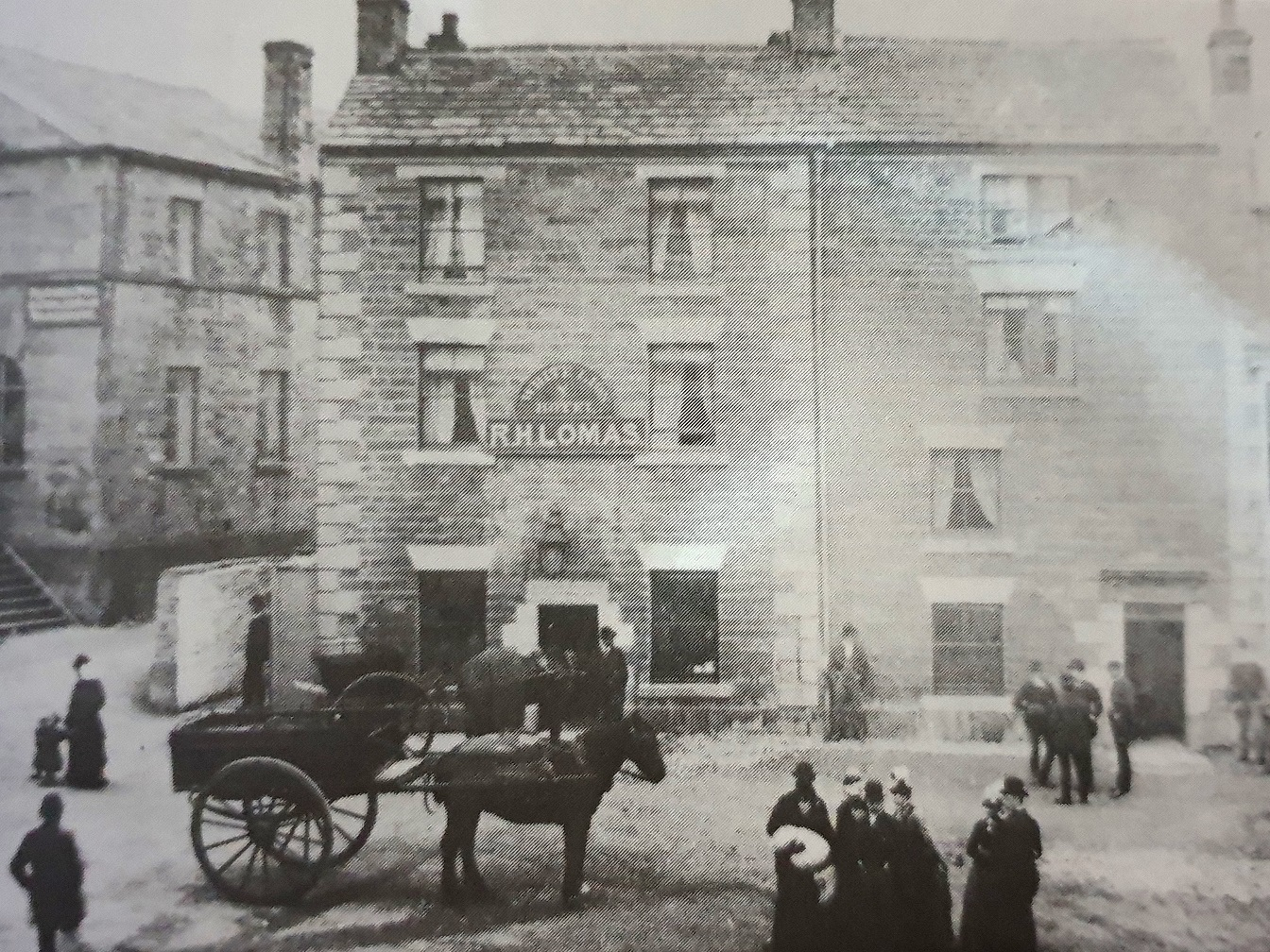 White Lion Inn at Buxton